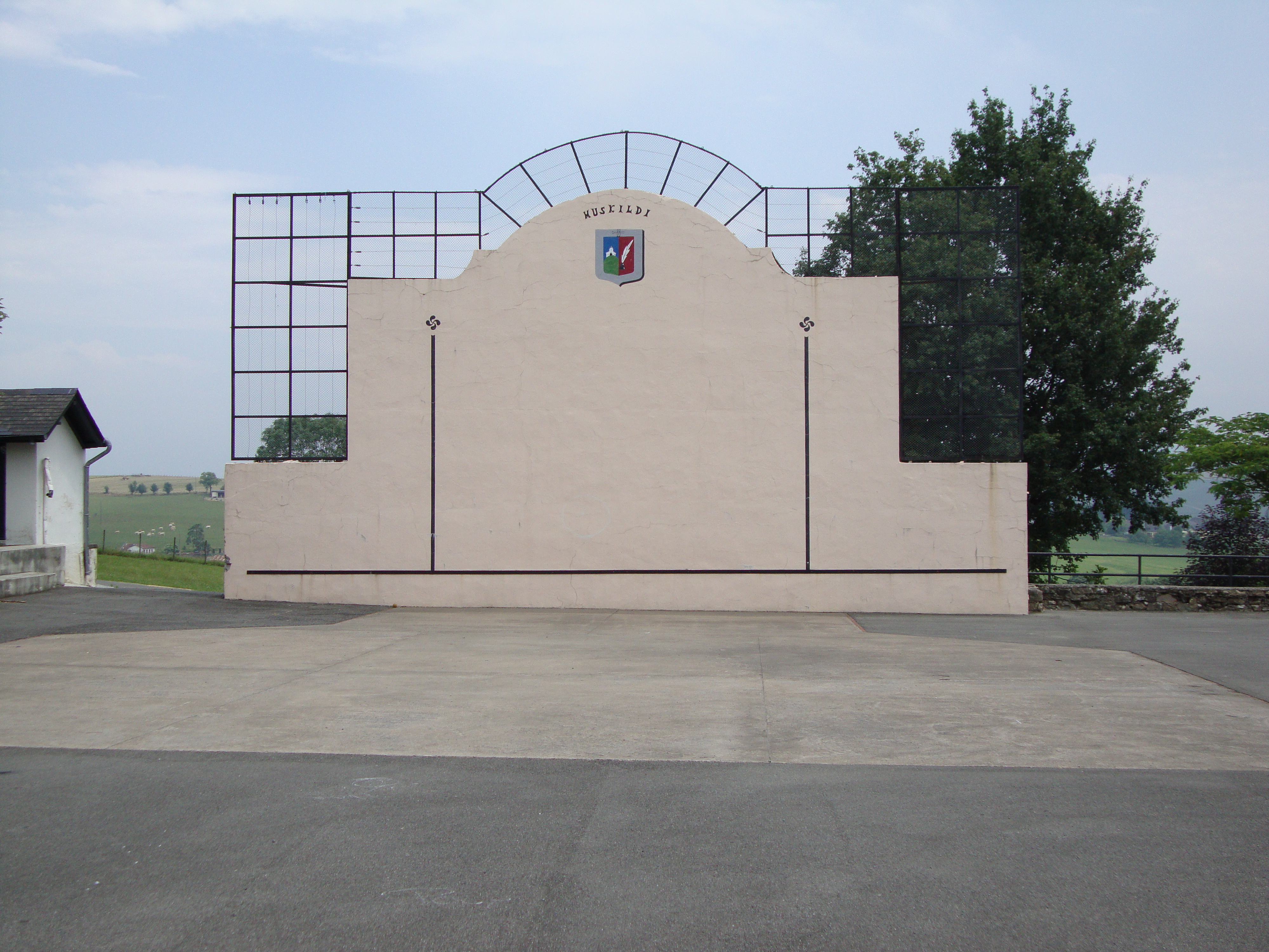 Musculdy (Pyr-Atl, Fr) pelota court